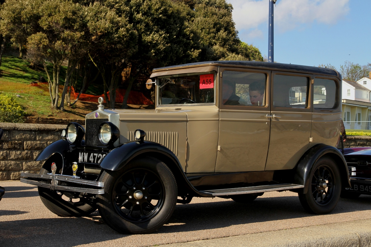 Morris Oxford Empire saloon on Felixstowe seafrontThe car was registered in Wiltshire between July 1927 and December 1928. (DVLA) first registered 17 May 1929